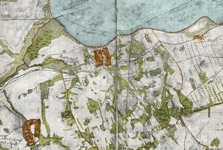 Detail of a map of Mecklenburg-Strelitz showing the Dassower See, Zarnewenz and the Siechenhaus